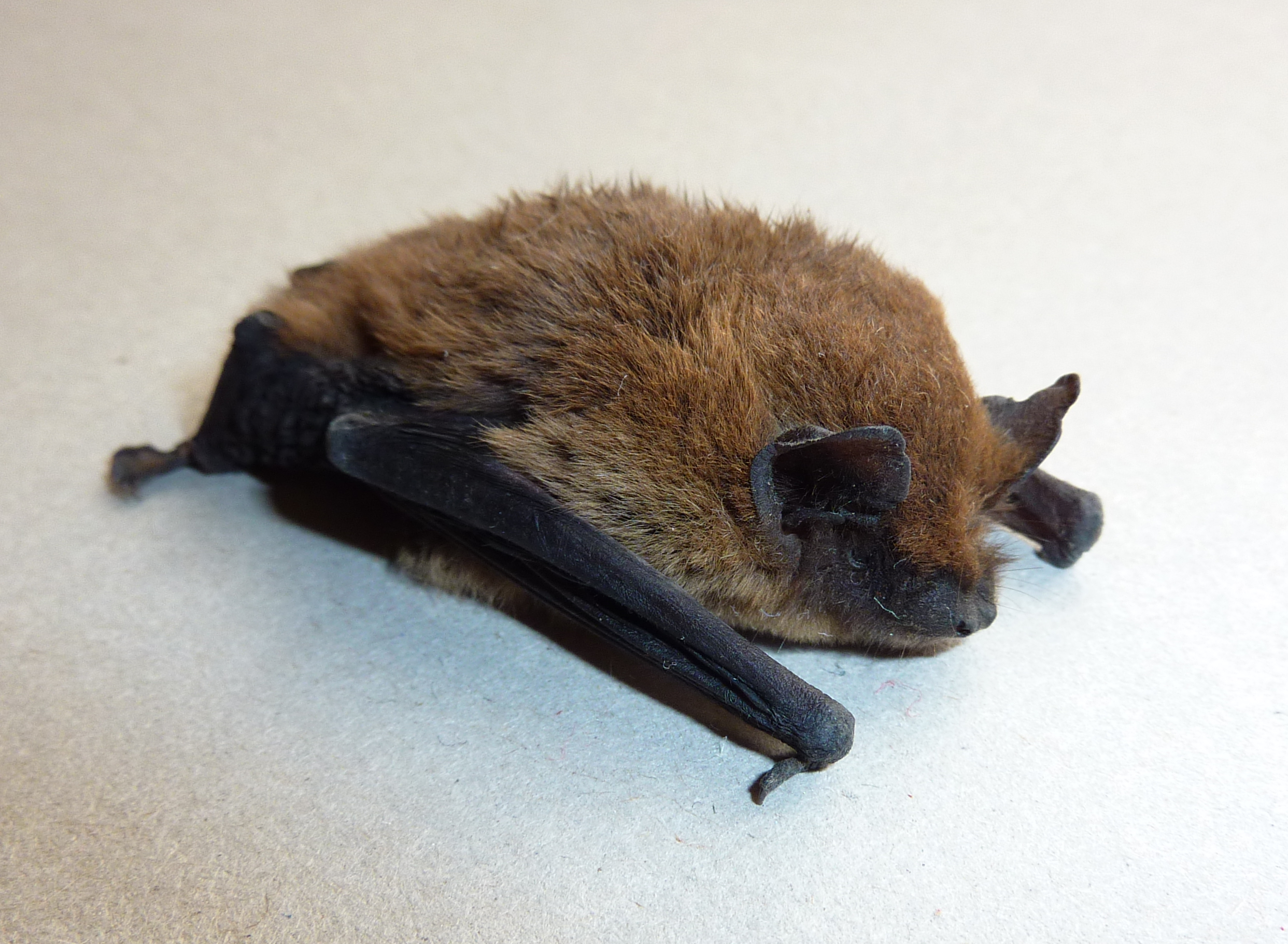 Attic bat, Charente-Maritime (France)